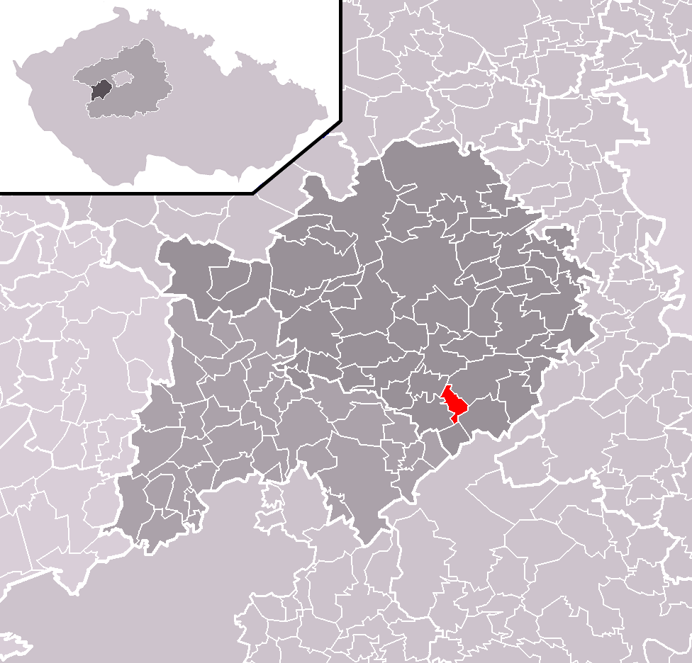 Location of Nesvačily municipality within Beroun District and administrative area of Beroun as a Municipality with Extended Competence.